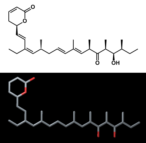 Chemical structure of Callystatin A